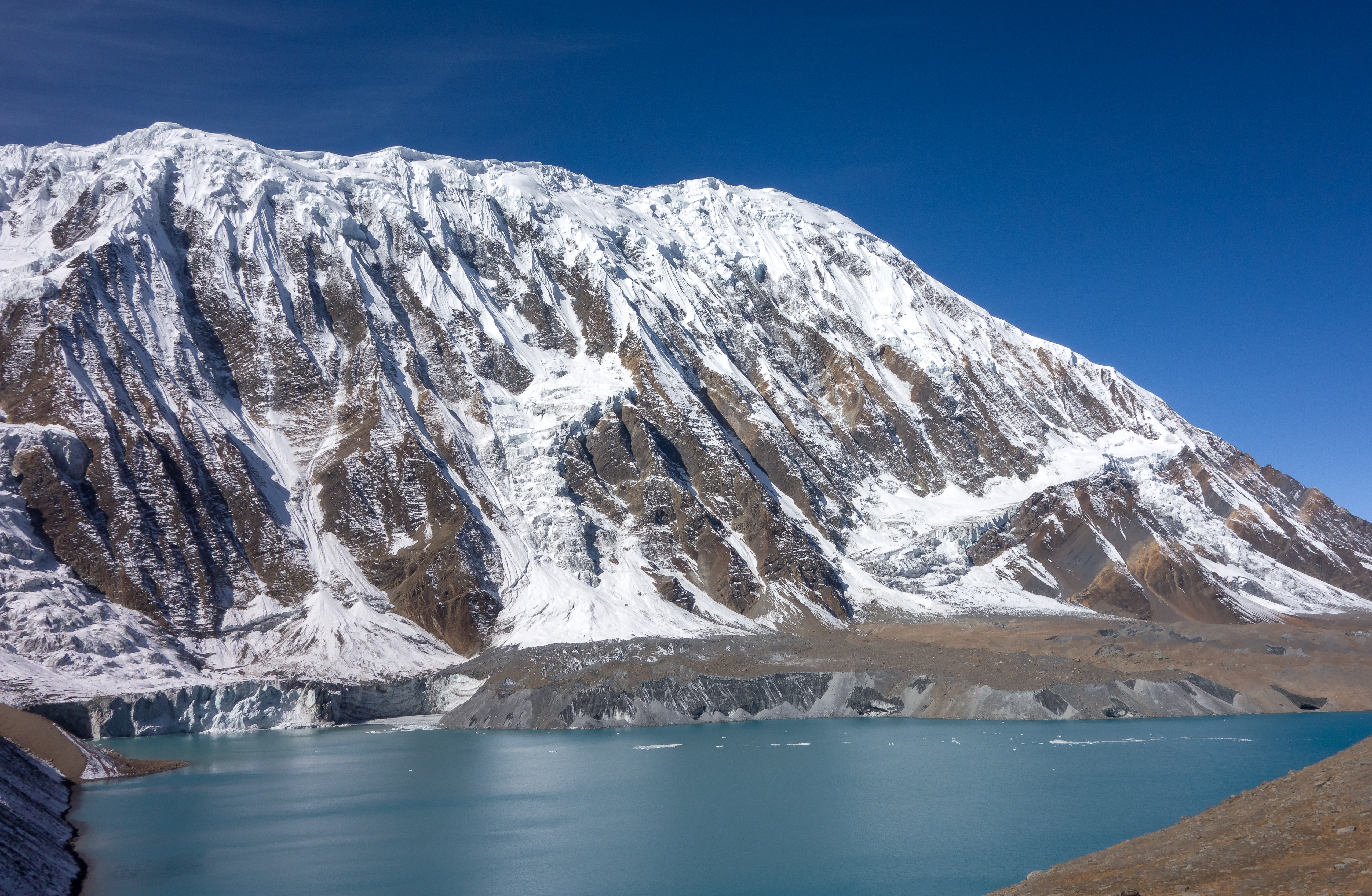 Tilicho Peak and South coast of Lake Tilicho Русиньскый: Пик Тиличо и южный берег озера Тиличо